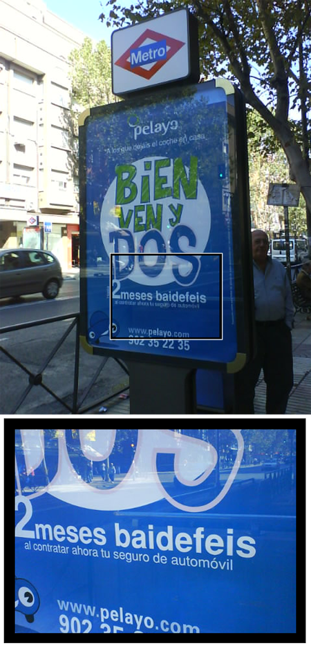 Example of a common usage of Spanglish in an advertisement in Madrid, Spain.